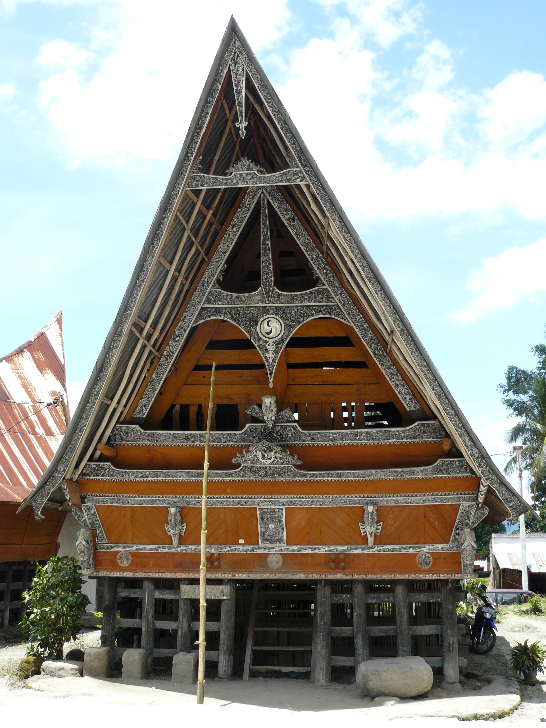 Taken on Samosir Island/Lake Toba (Indonesia)